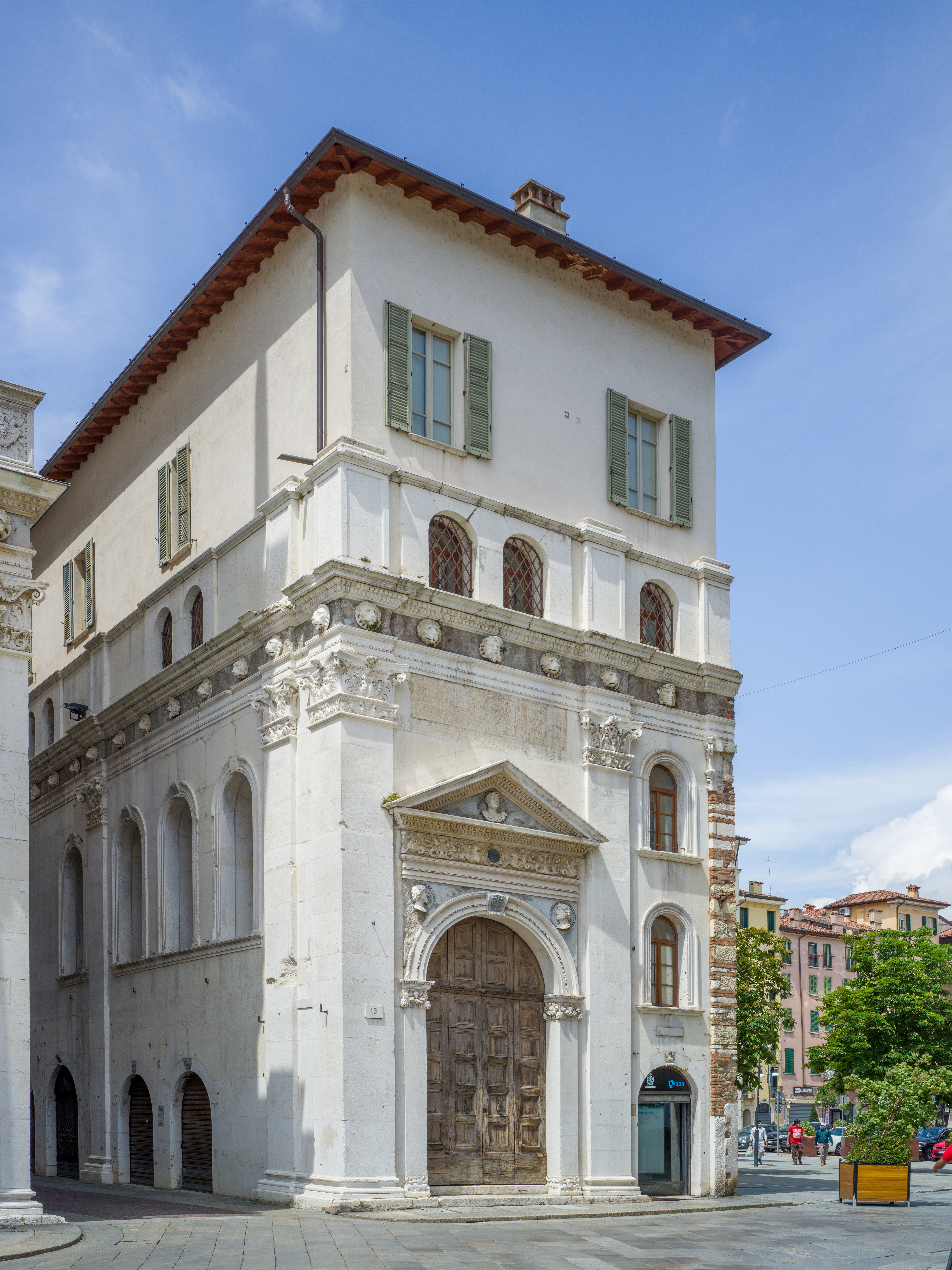 Palazzo della Loggia) northern extension AD 1508 on Piazza della Loggia square in Brescia.